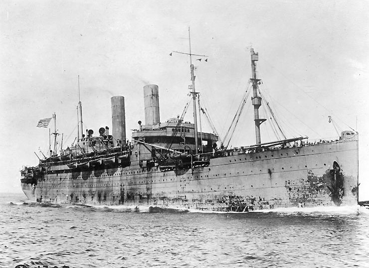 SS George Washington in the navy during ww1